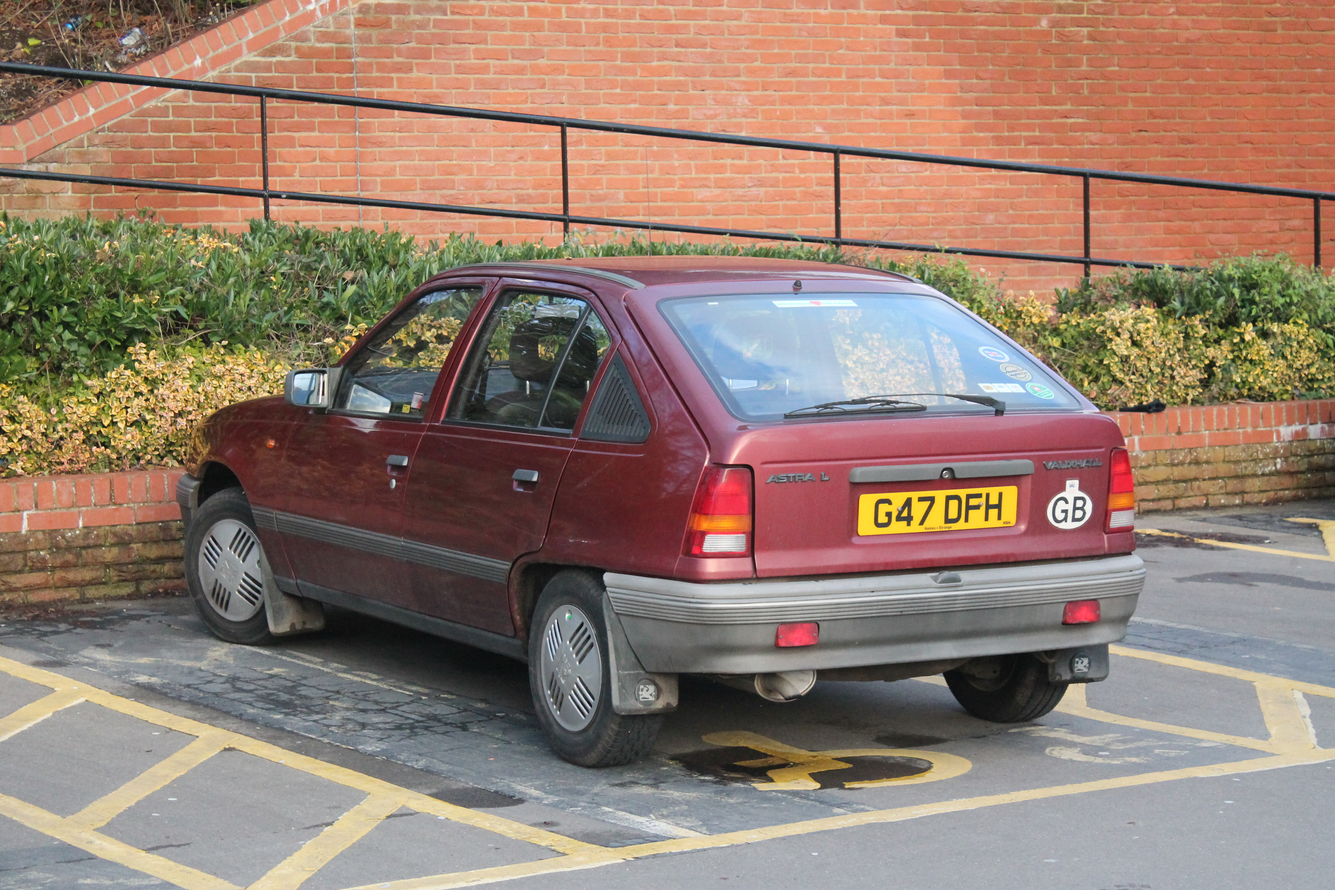 I do like this shape of Astra, but I reckon they'll almost die out in a few years. This one looked nice and original, right down to the wheel trims and the mud flaps, and a variety of stickers in the rear such as a period "Vauxhalls Love Unleaded" and the ubiquitous RNLI sticker. You've guessed it, the owner was an OAP, parked in the disabled spot in Waitrose- I saw her totter out to load up her shopping soon after this photo. Not the first owner though (1 previous) but she's probably owned it a while and intends to keep hold of it until she dies. The vehicle details for G47 DFH are: Date of Liability 01 07 2014 Date of First Registration 01 06 1990 Year of Manufacture 1990 Cylinder Capacity (cc) 1598cc CO₂ Emissions Not Available Fuel Type PETROL Export Marker N Vehicle Status Licence Not Due Vehicle Colour RED Vehicle Type Approval Not Available